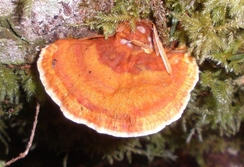 Pycnoporellus fulgens For more information about this, see the observation page at Mushroom Observer.